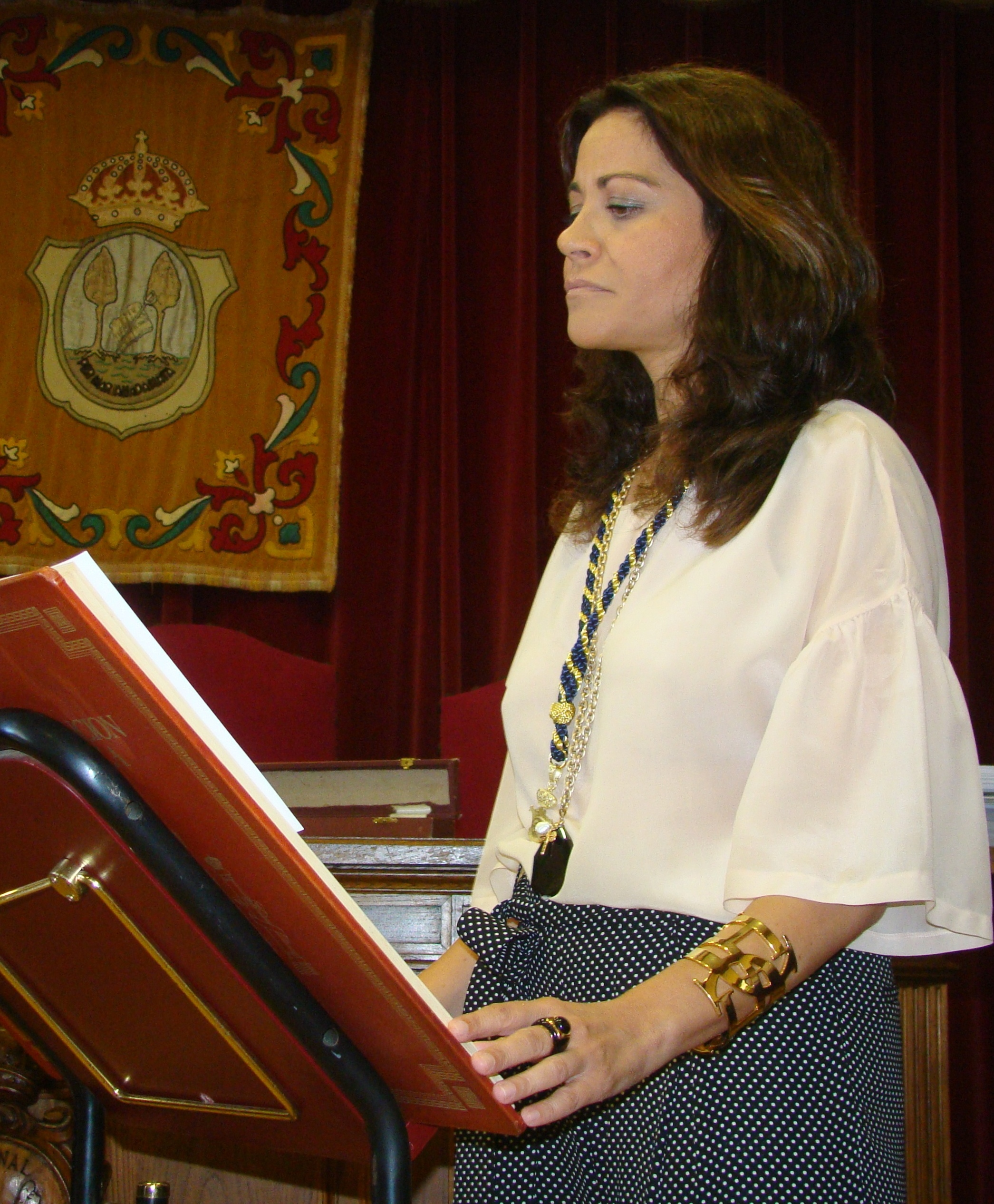 Mayor of Fregenal